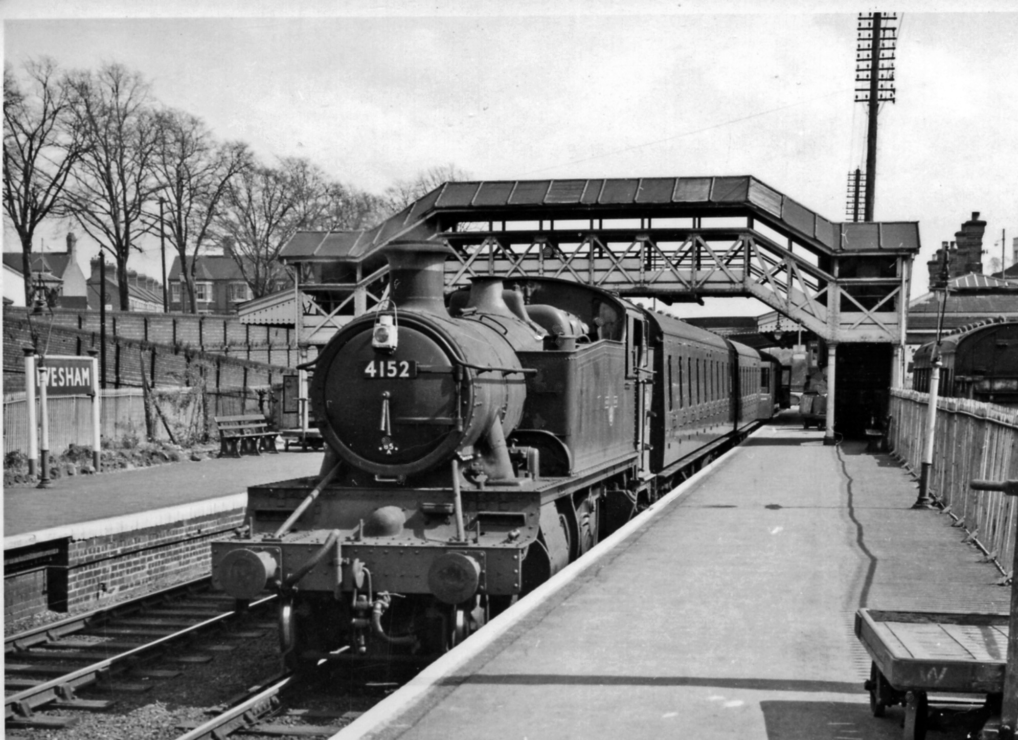 Evesham (WR) station, with Down local train. View SE, towards Honeybourne, Oxford, etc.: ex-GW London, Reading, Oxford etc. - Worcester etc. main line. Directly on the right is the separate ex-Midland station, on the Birmingham - Redditch - Evesham - Ashchurch line (closed 10/62 - 9/63). The train is the 12.09 Stratford-on-Avon to Worcester (Shrub Hill), which had joined the main line at Honeybourne; the locomotive is '5101' 2-6-2T No. 4152 (built 6/47).